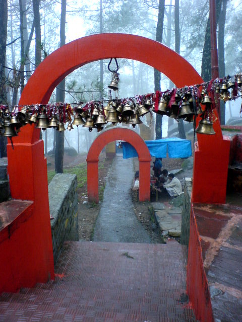 Red temple gate with bells at Dhaulchinna in Uttarakhand, India.